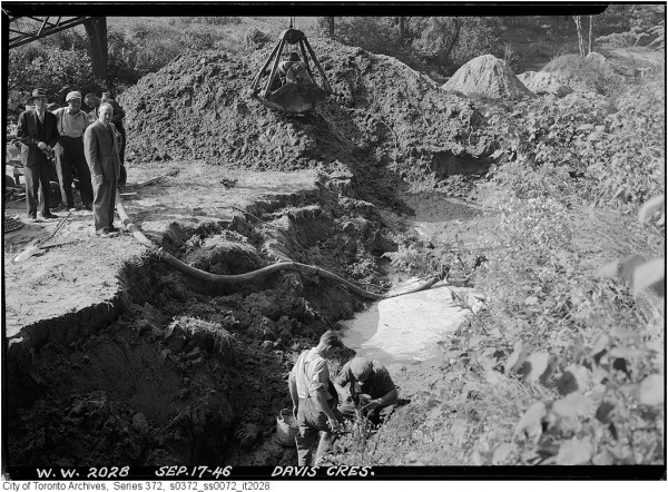 Springs continue to erupt near the former headwaters of Tomlin's Creek. This image is available from the City of Toronto Archives, listed under the archival citation series 372, subseries 72, item 2028. This tag does not indicate the copyright status of the attached work. A normal copyright tag is still required. See Commons:Licensing for more information.